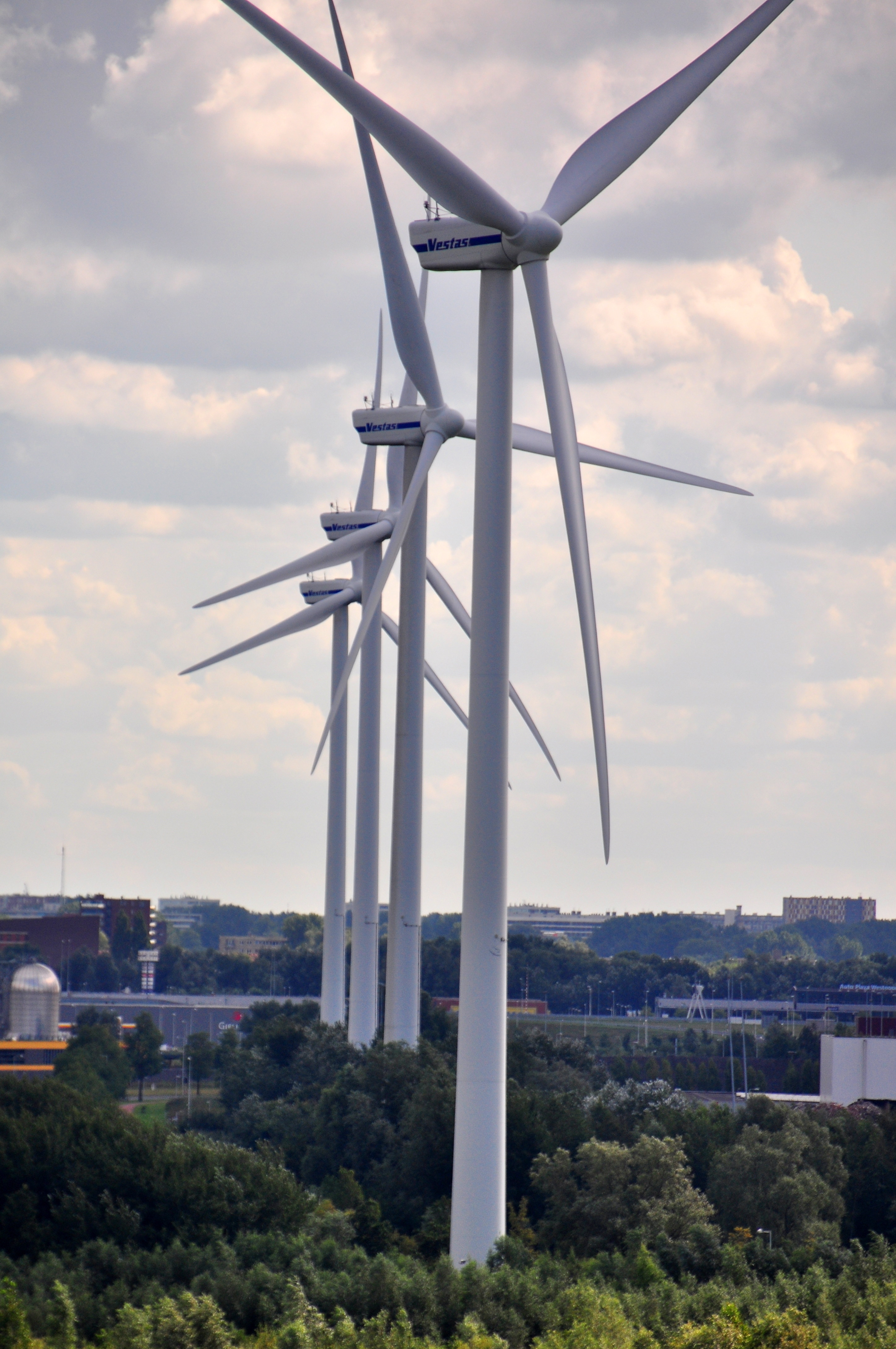 Wind turbines in Amsterdam, The Netherlands. Vestas wind turbines along Australiëhavenweg, taken from the deck of a large passenger ship heading out of Amsterdam on the North Sea Canal.